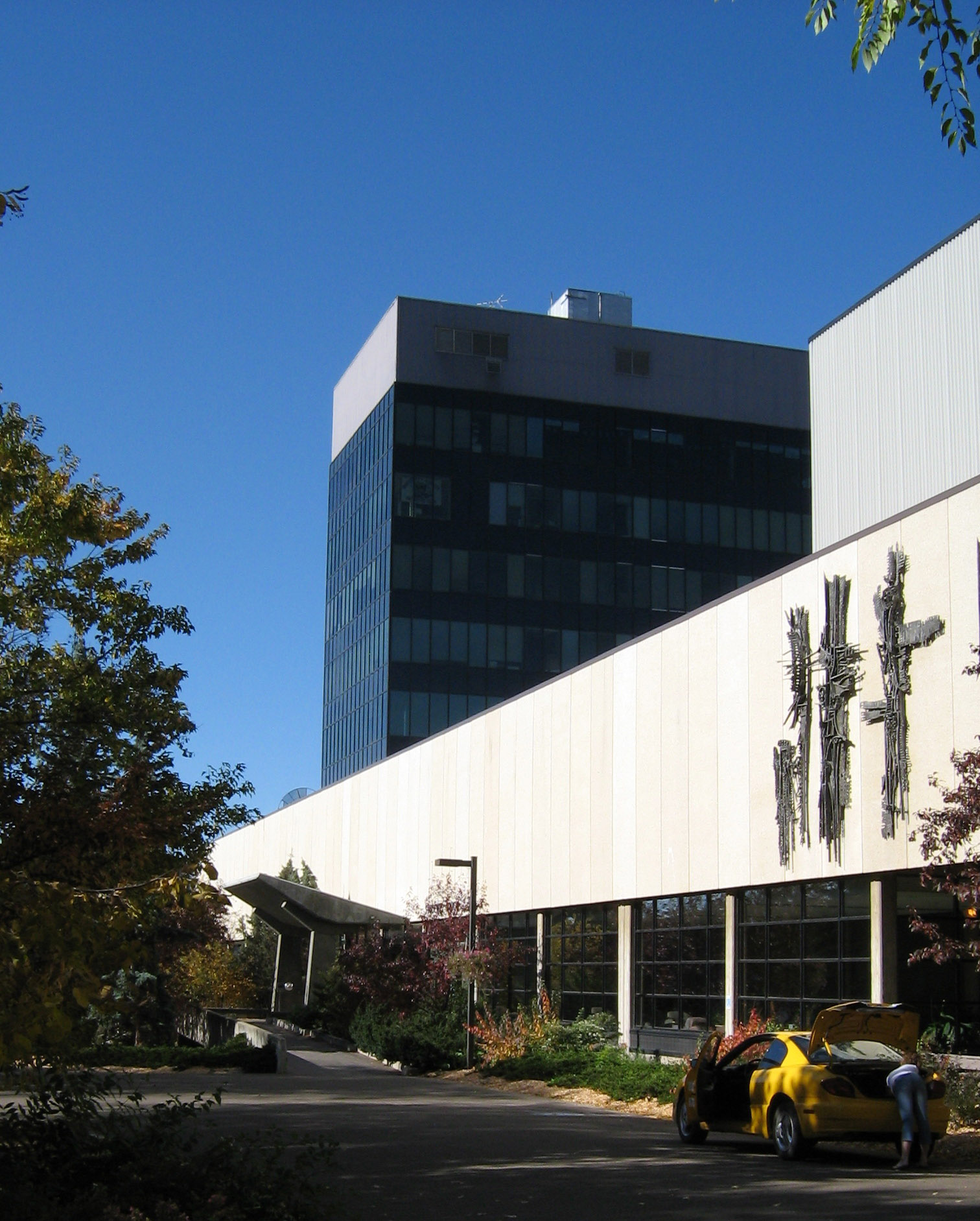 Photo of the west side of the Students' Union Building (SUB) at the University of Alberta. Shows the SUB tower to the north and part of the Myer Horowtiz Theatre to the south.